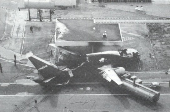 USAir Flight 1493 wreckage